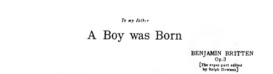 Page heading from the score for A Boy was Born, by Benjamin Britten, published by Oxford University Press. Text reads "To my Father - A Boy was Born - Benjamin Britten - Op. 3 - [The organ part edited by Ralph Downes]